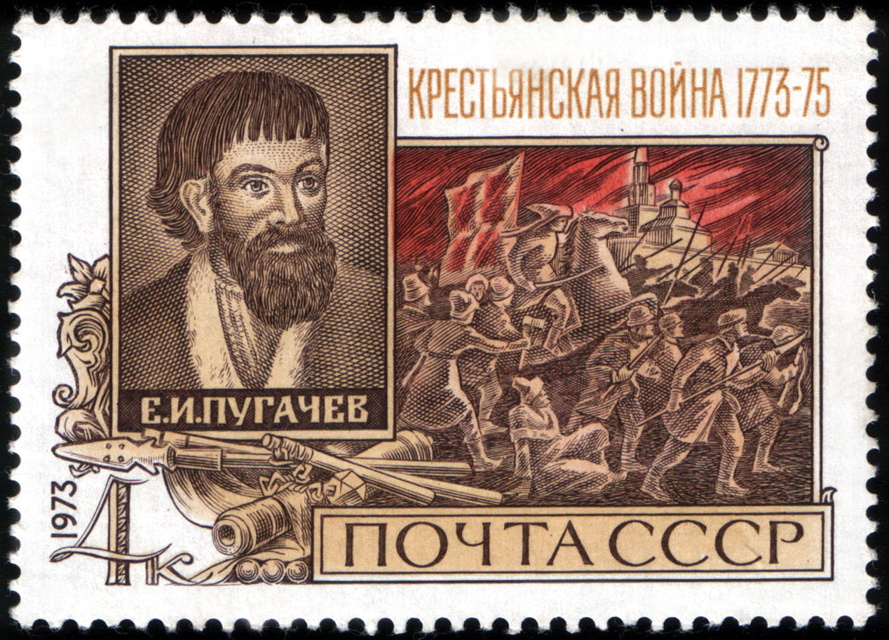 USSR stamp, E. Pugachev, 1973, 4 k.